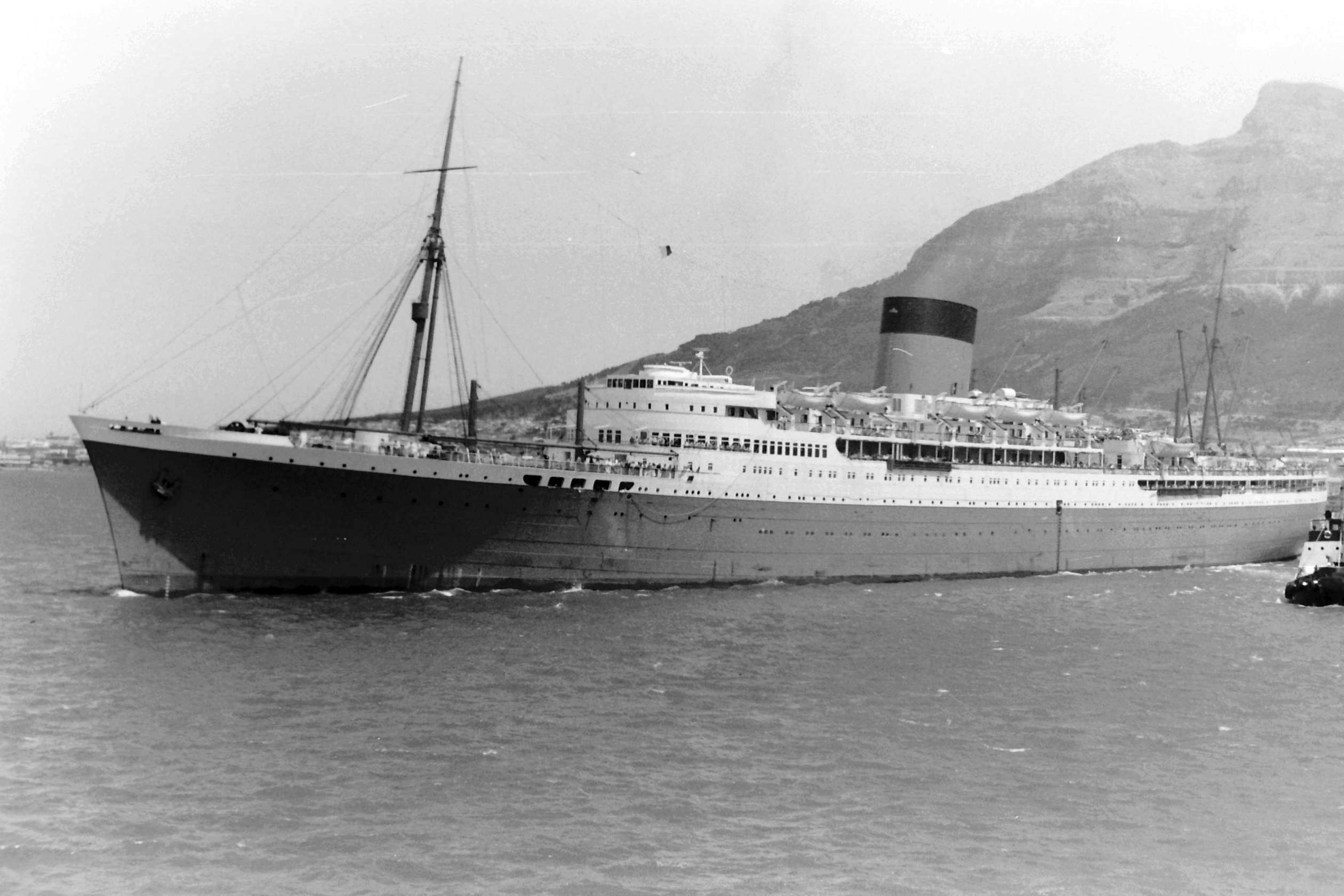 Pretoria Castle Capetown 1953.